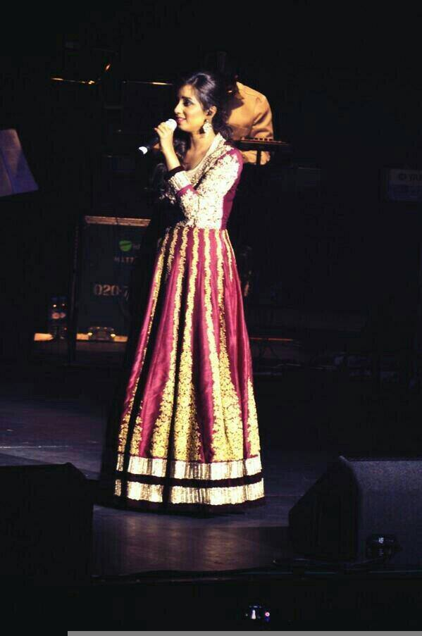 Shreya Ghoshal at World Forum Theater Den Haag- Holland 31st May 2014